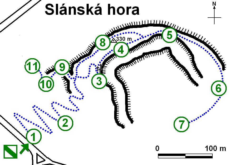 Slánská hora educational trail in Slaný town, Kladno District, Czech Republic). Stand as of 2009. Introduction Botany Three crosses View of the industrial part of the town Geology Dendrology and tree planting Zoology - butterflies View of the historical core of the town Archaeology Town history Zoology - birds / end